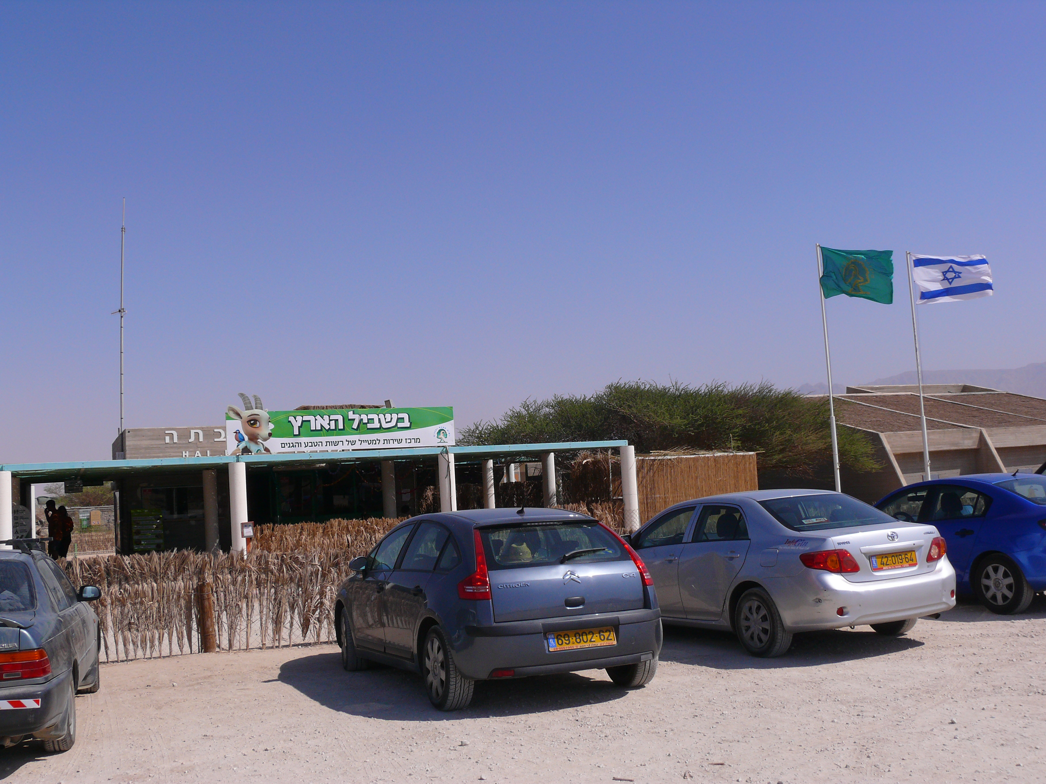 Chay Bar Yotvata, Israel - nature reserve in the Arava